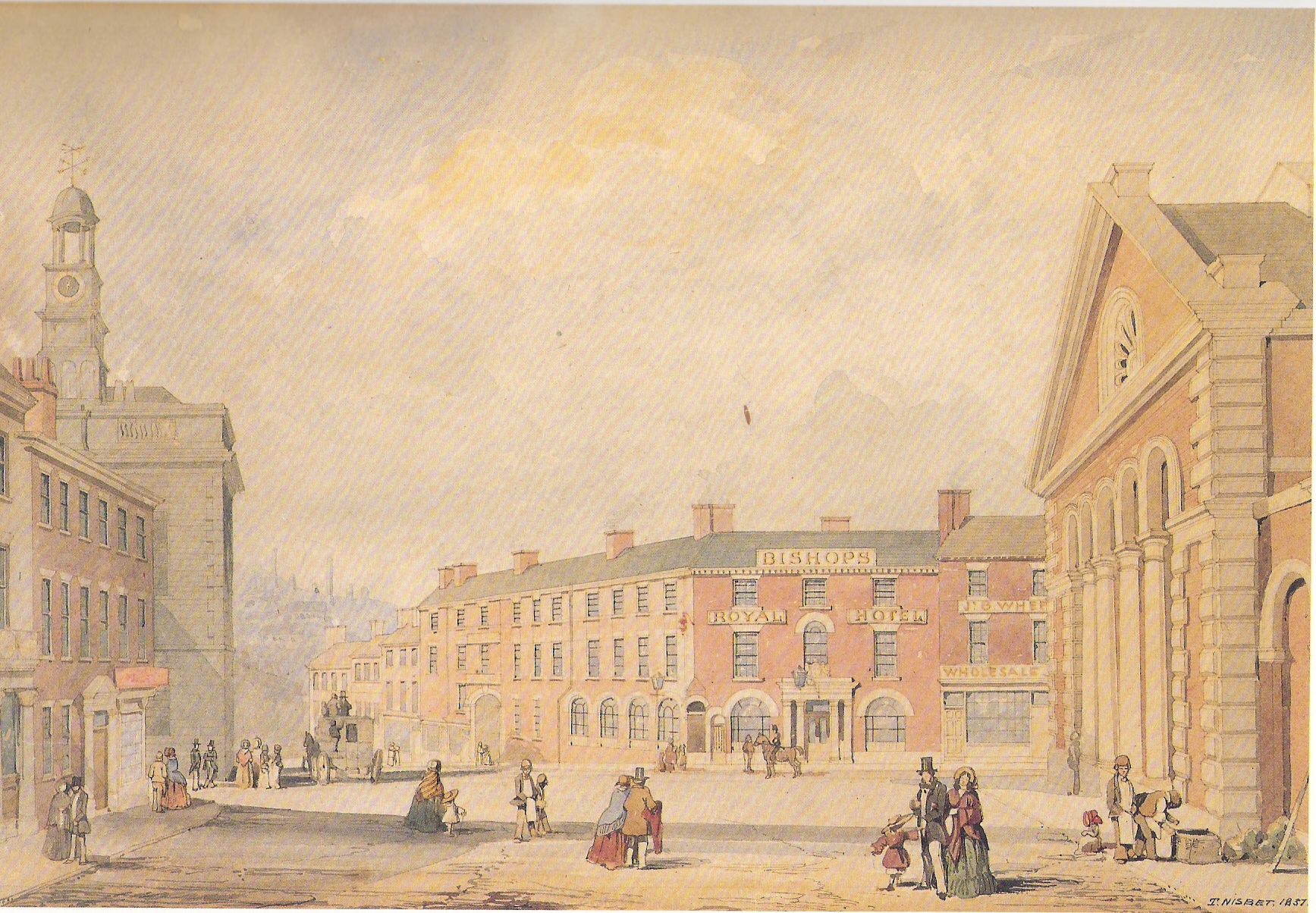 A view of Waingate in Sheffield in 1857, showing the Norfolk Market Hall on the right and the Town Hall on the left.